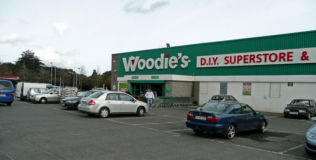 Woodie's DIY Superstore, Glasnevin One of 27 stores that the company own across Ireland.